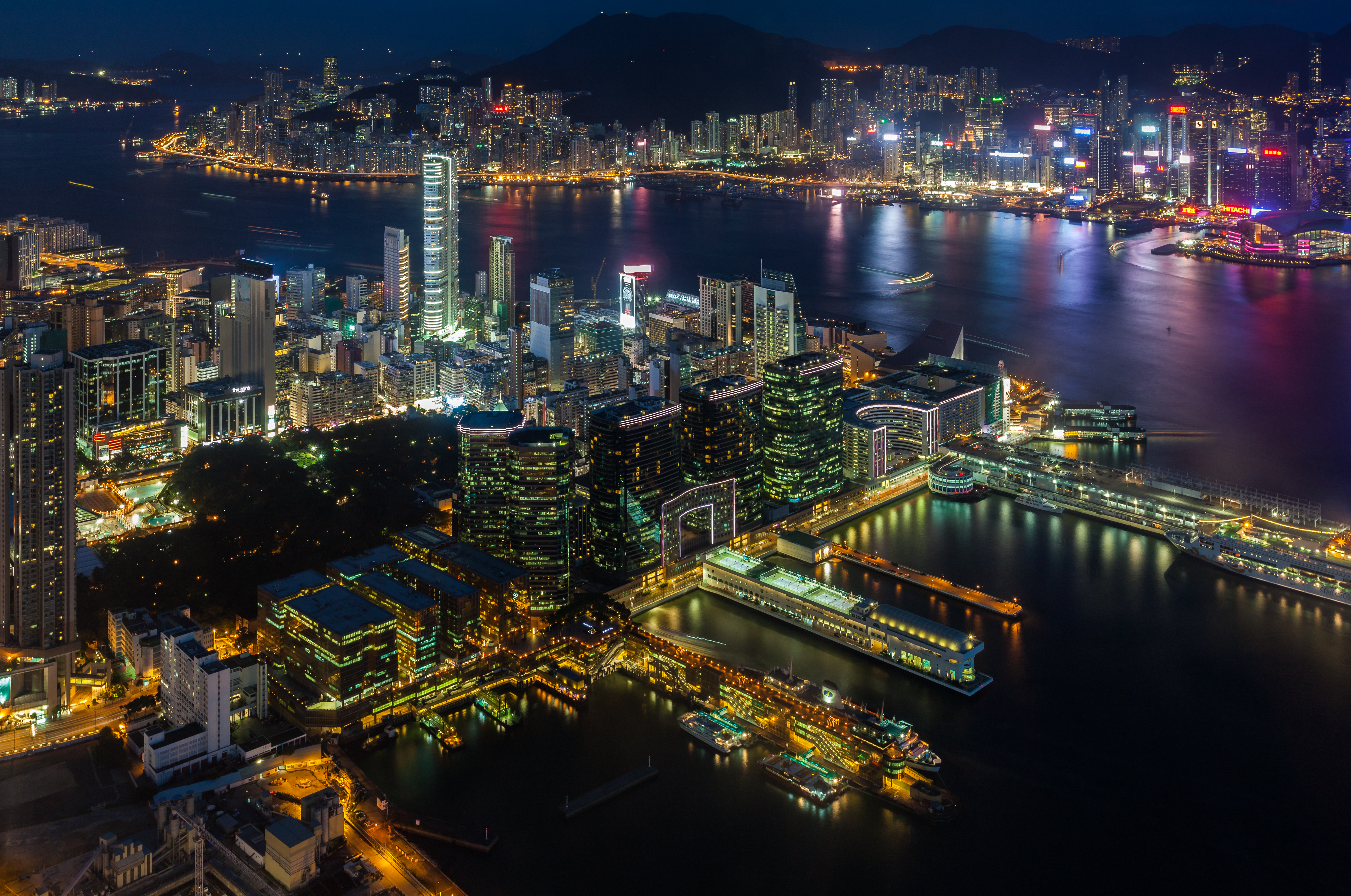 View of the Victoria Harbour from the Sky100, the 100th floor of the International Commerce Centre skyscraper in Kowloon, Hong Kong, China.